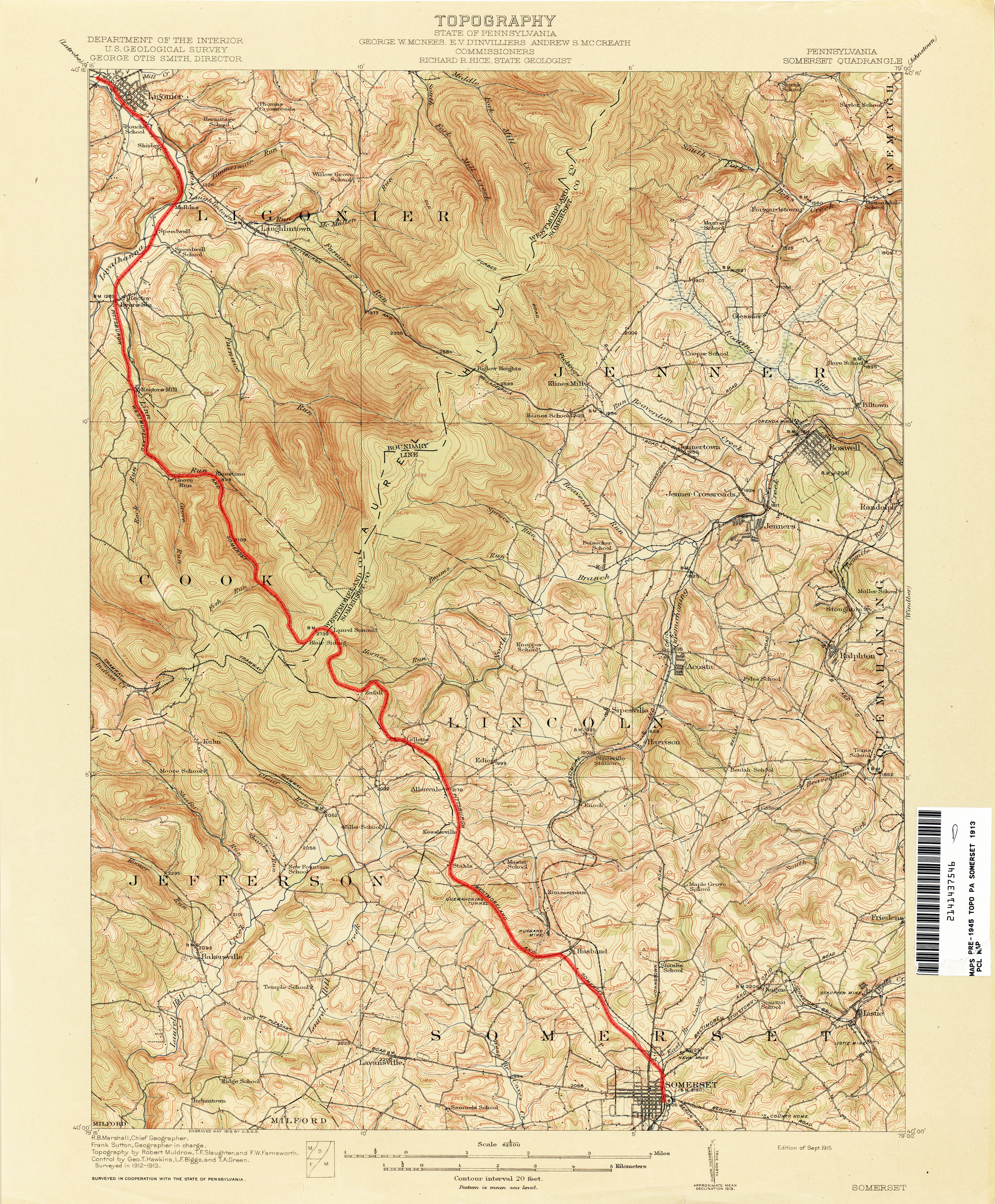 map of the Pittsburgh, Westmoreland and Somerset_Railroad